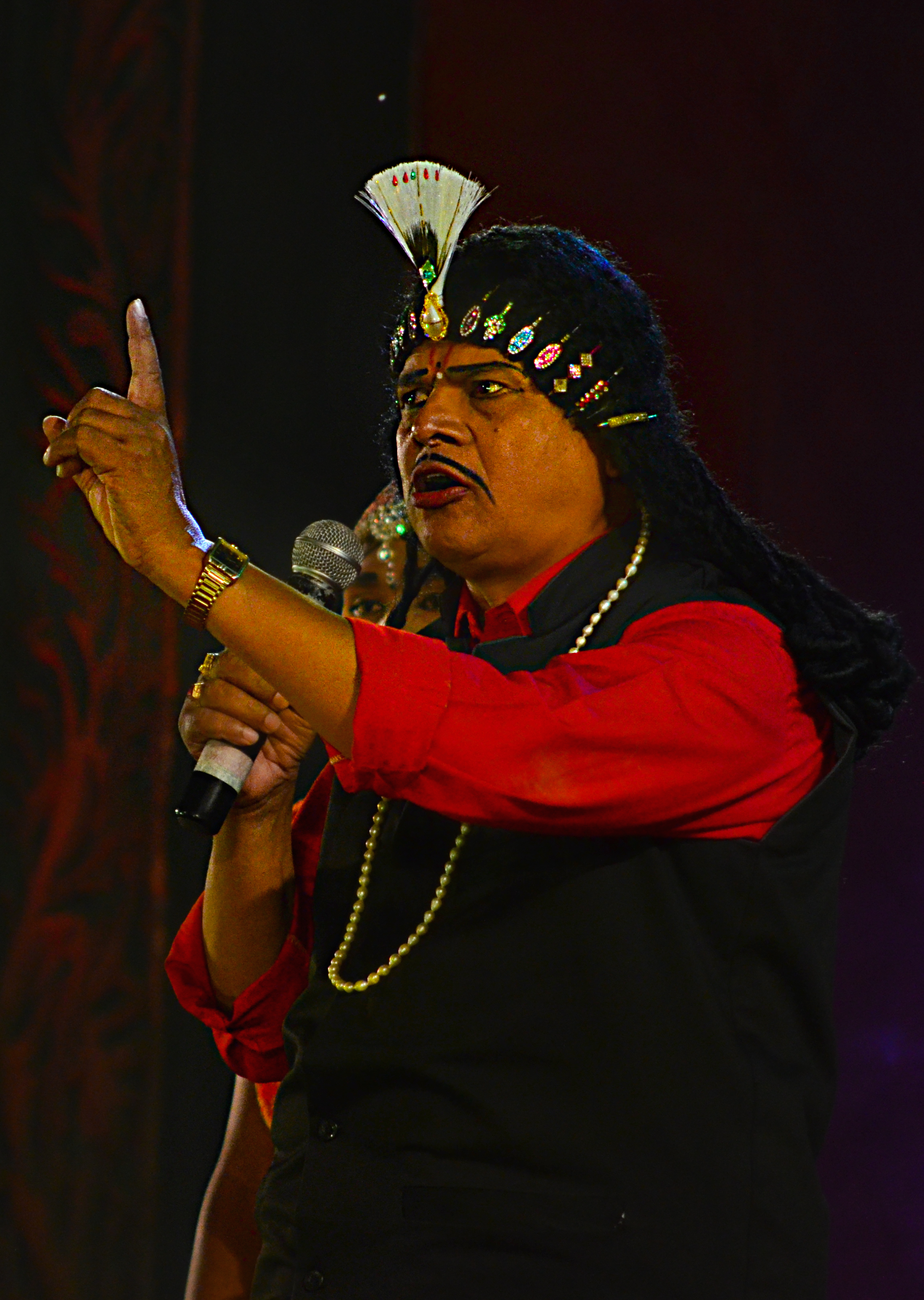 Bharata Lila is a 150 year-old folk art of the Ganjam district of Odisha. It narrates the story of Subhadra and Arjuna from the Mahabharata while deviating into various sub-plots. The chief narrator is the duari, a character who is the doorkeeper of Arjuna. It is the duari who binds the various episodes together and keeps the audience's attention focussed on the play. ଓଡ଼ିଆ: ଗଞ୍ଜାମର ଲୋକନାଟ ଭାରତ ଲୀଳା ବା ଦୁଆରୀ ନାଟ । ଏଥିରେ ଅର୍ଜୁନ ଓ ସୁଭଦ୍ରାଙ୍କ ବିଭାର କାହାଣୀ ପରିବେଶିତ ହୁଏ । ପ୍ରମୁଖ ଚରିତ୍ର ଅର୍ଜୁନଙ୍କ ଦ୍ୱାରରକ୍ଷକ ବା 'ଦୁଆରୀ' । ଏହି ଦୁଆରୀ ଚରିତ୍ର ବିଭିନ୍ନ କାହାଣୀର ବ୍ୟାଖ୍ୟା କରିବା ସଙ୍ଗେ ସଙ୍ଗେ ଦର୍ଶକଙ୍କୁ ନାଟରେ ବାନ୍ଧିରଖନ୍ତି ।